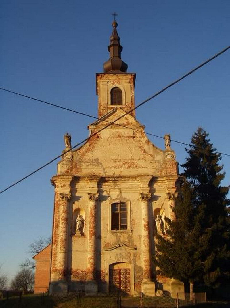 Pogančec - Church in 2005 - Global View